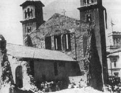 Holi Trinity Church, destroyed during the bombing by USA and RAF aircrafts, Piraeus, Greece, January 11, 1944